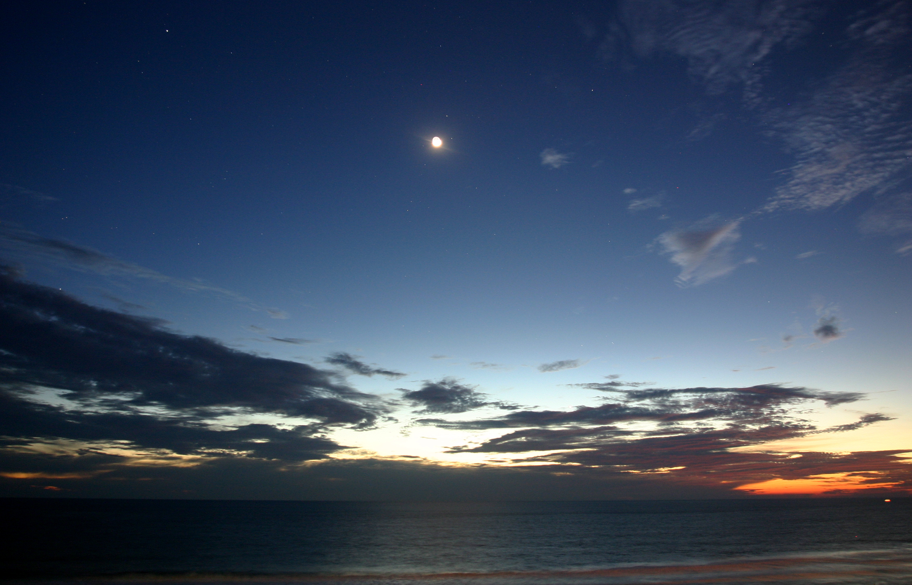 Dusk at Acapulco, during the winter when the Moon rises well before complete darkness.